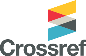 CrossRef logo.